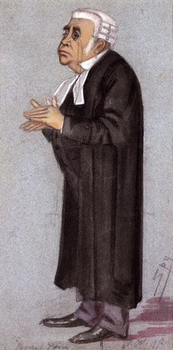 Caricature of Sjt John Humffreys Parry. Caption read "a lawyer".